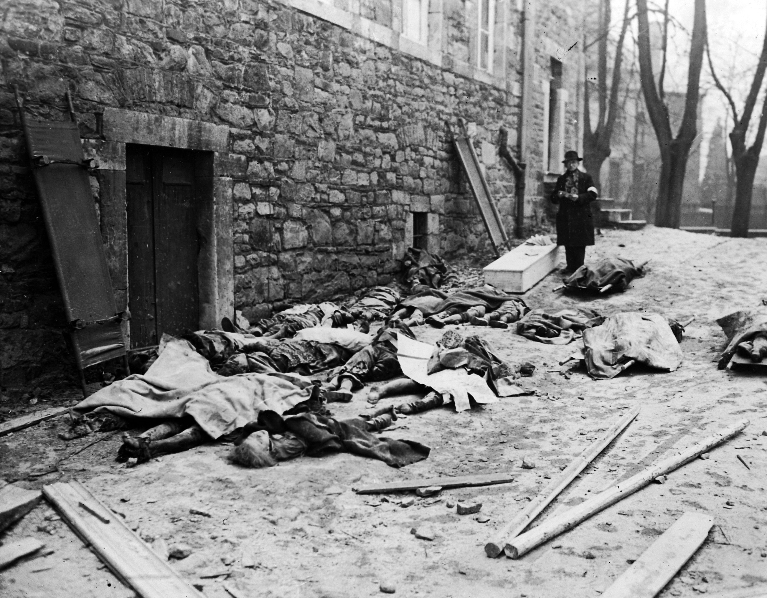 The bodies of Belgian men, women, and children, killed by the German military during their counter-offensive into Luxembourg and Belgium, await identification before burial.